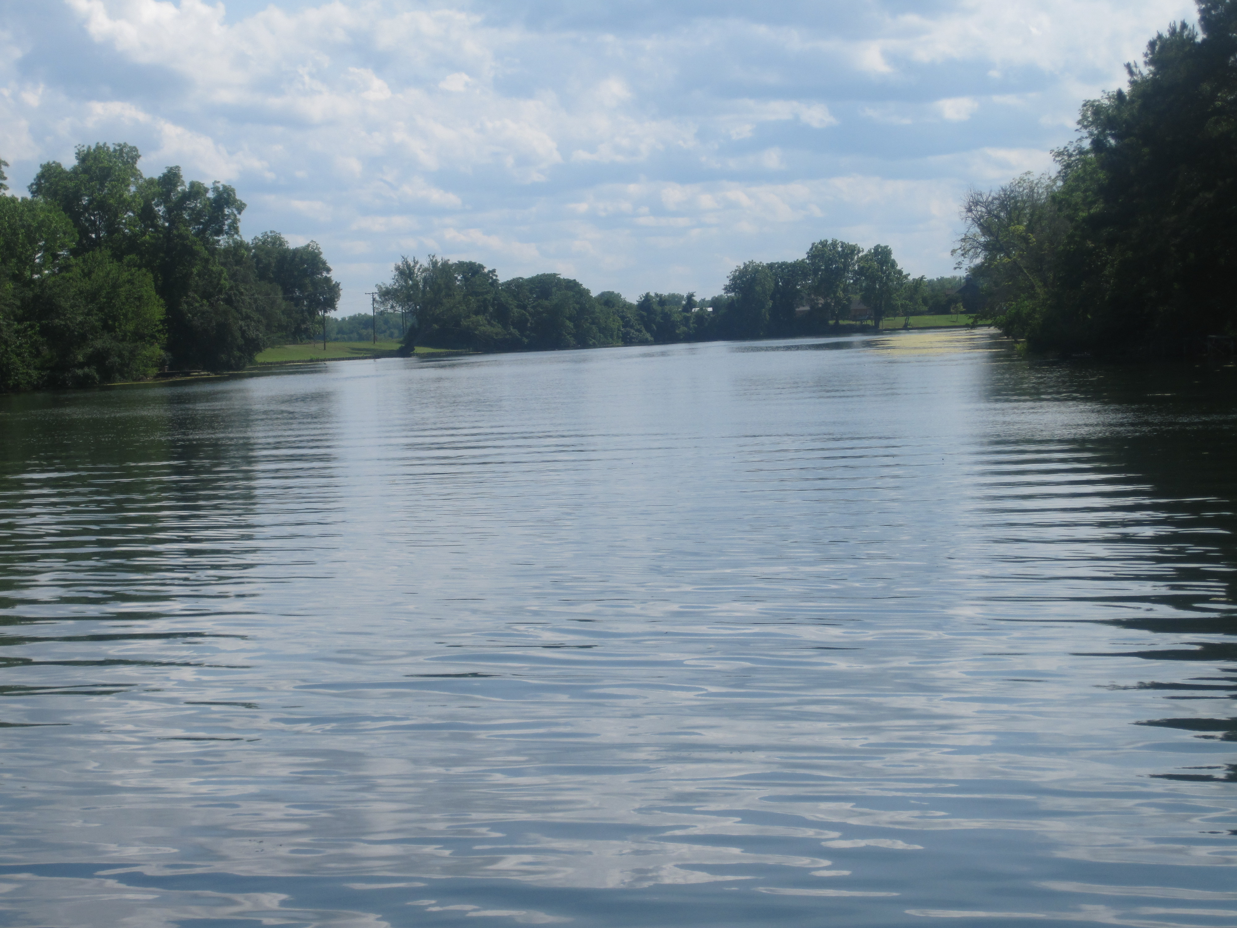 Cane River Lake — south of Natchitoches near Melrose, in the Cane River National Heritage Area, Natchitoches Parish, Louisiana. Credits I took photo on May 16, 2010, at Natchitoches Parish, LA